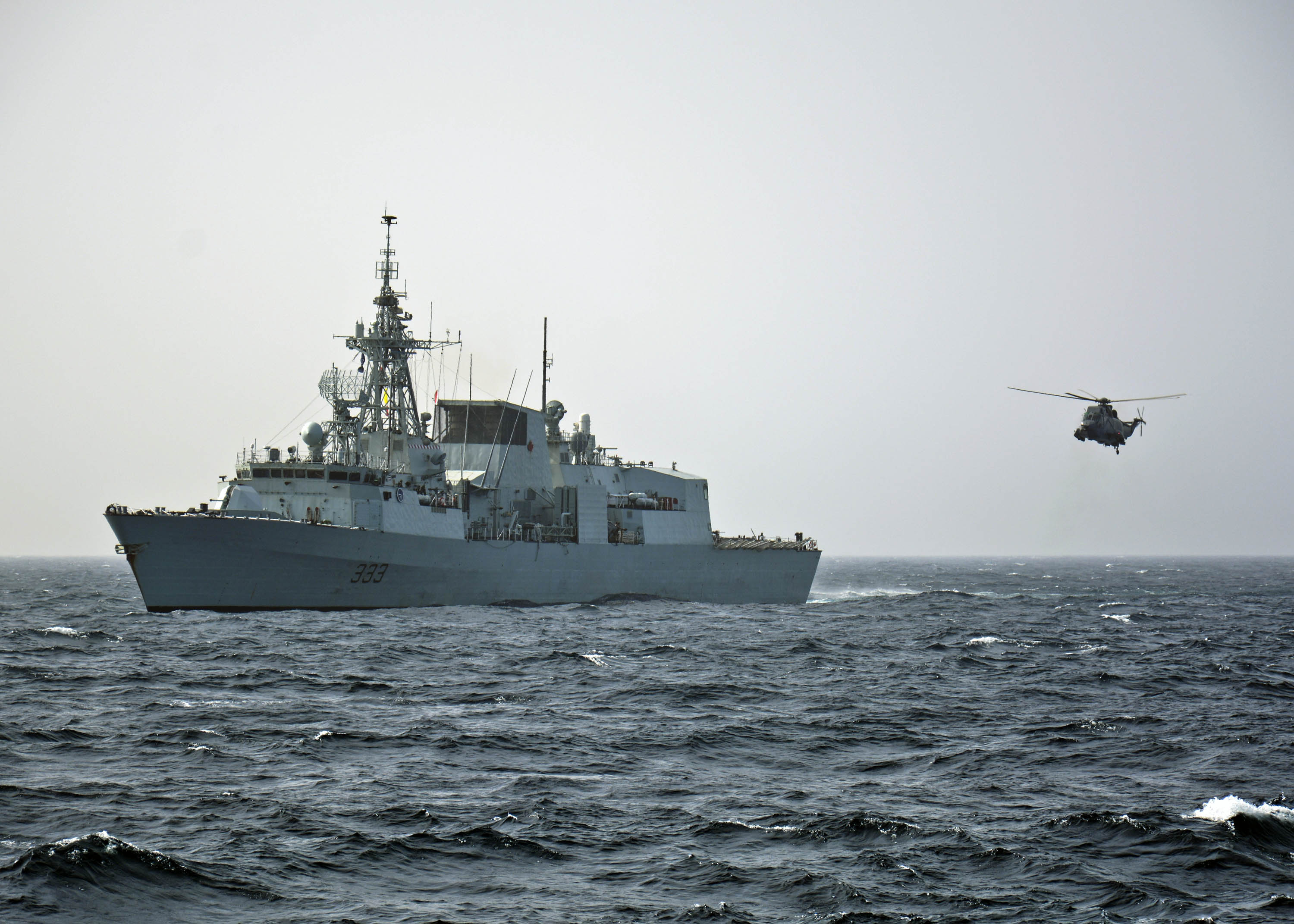 The Royal Canadian Navy frigate HMCS Toronto (FFH 333) launches a helicopter during a ship boarding exercise in the Alboran Sea east of Gibraltar with the U.S. Navy guided-missile cruiser USS Leyte Gulf (CG-55), flagship of the Standing NATO Maritime Group (SNMG) 2. SNMG-2 was participating in "Noble Justification", a wide-scale multinational series of exercises geared towards maintaining and improving NATO's ready forces' security and defense capabilities.